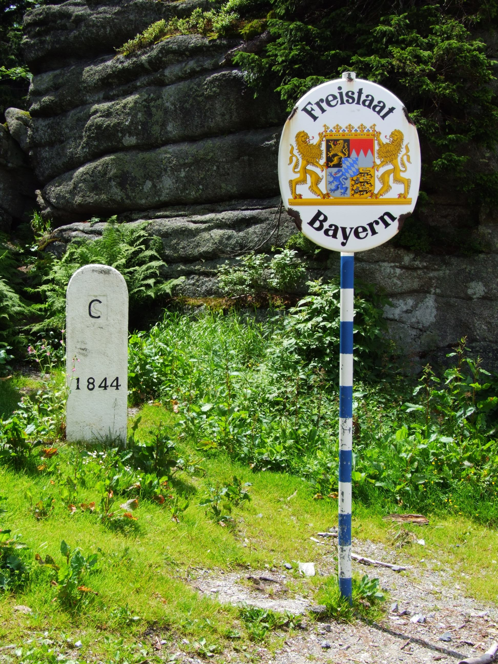 Border stone and Free State Bavaria sing on the Třístoličník/Dreisesselberg